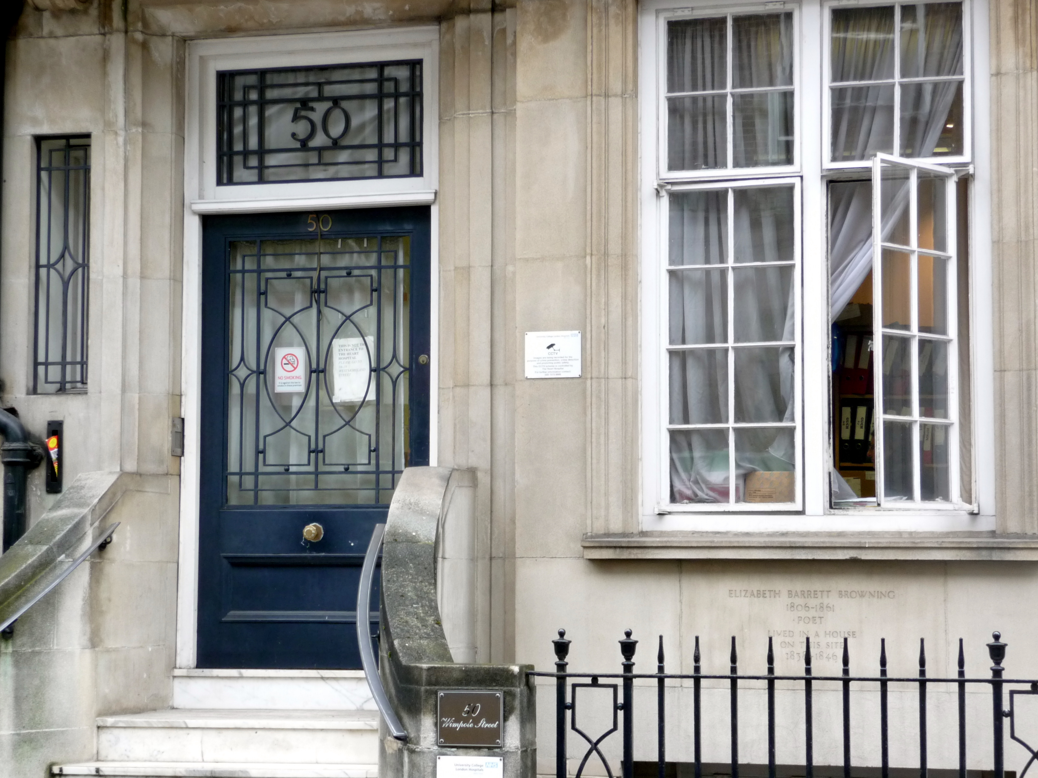 50, Wimpole Street